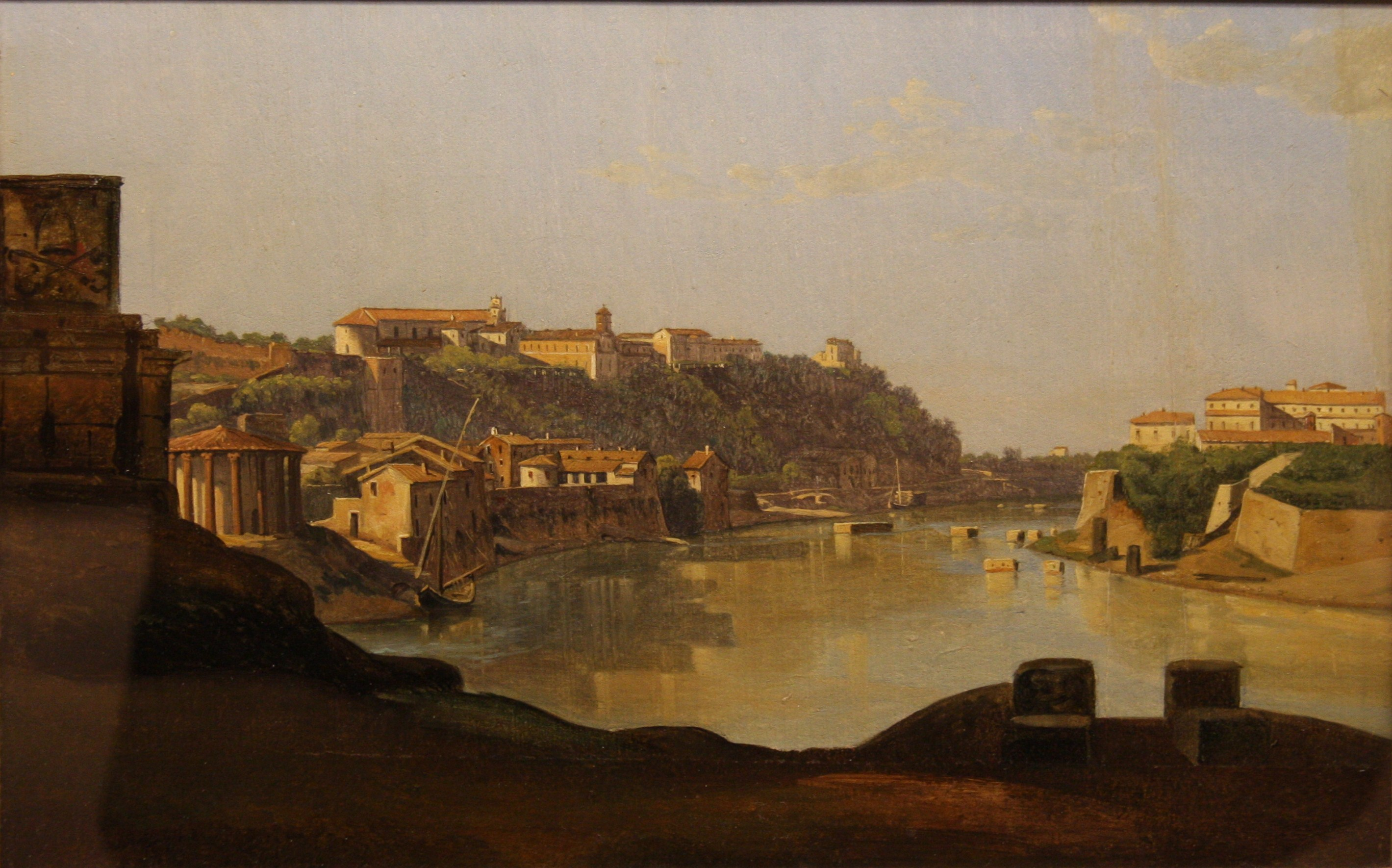 View over the river Tiber to the Aventine, Rome